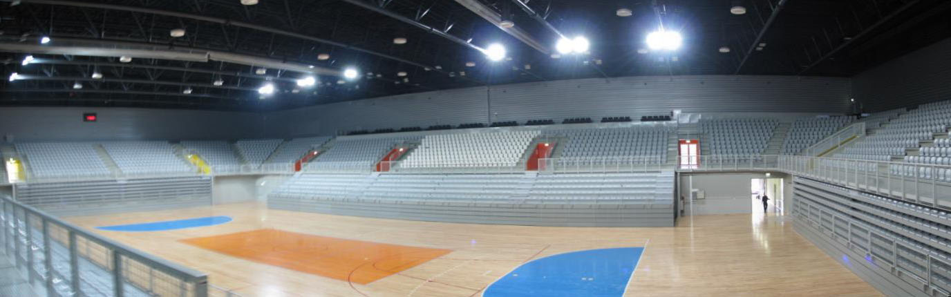 Varaždin Sport Hall